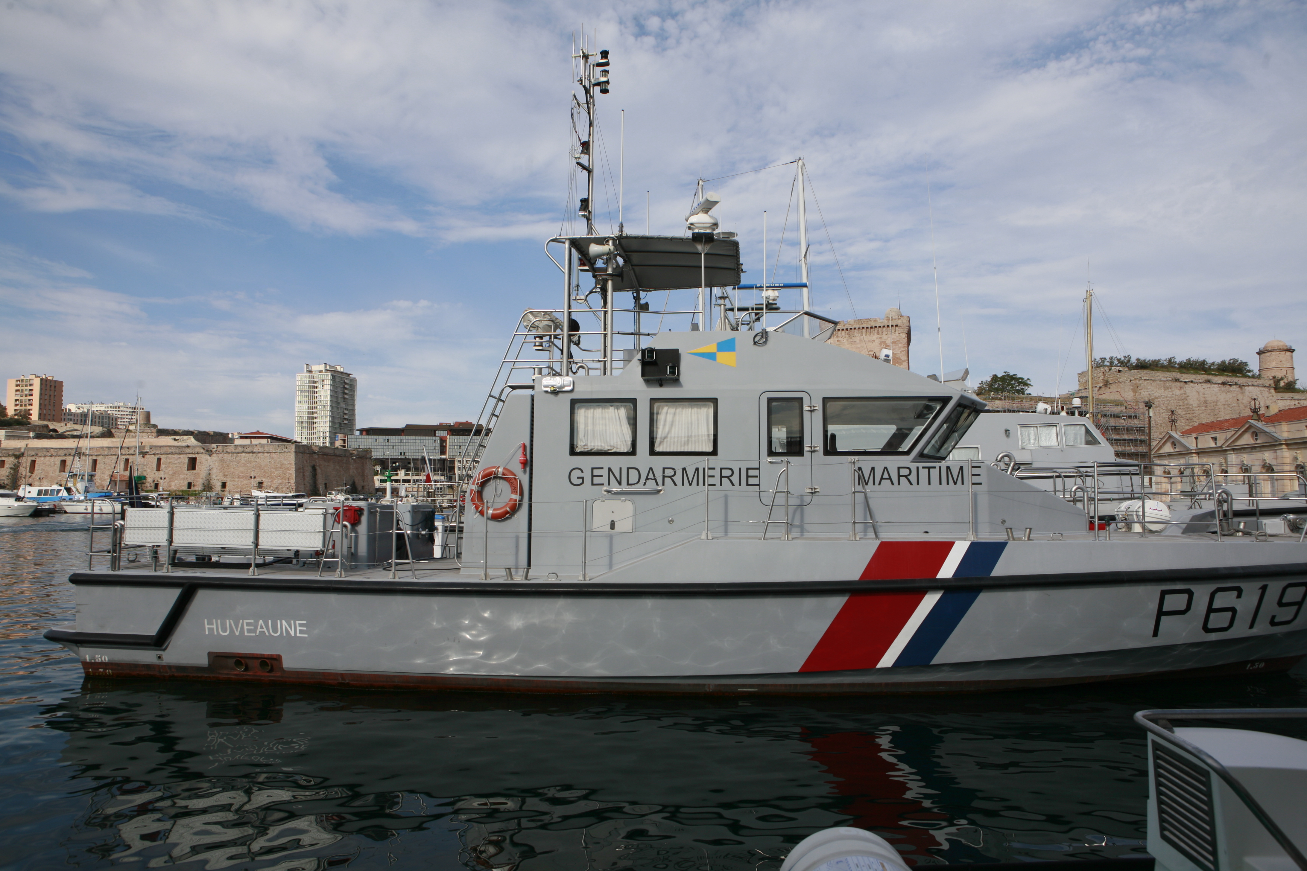 VSCM (vedette côtière de surveillance maritime, "Coastal boat for sea surveillance") Huveaune (P619), of the Gendarmerie maritime and Haize Hegoa type patrol boat Lissero (DF47), of the French customs services, photographed in the old harbour of Marseille.